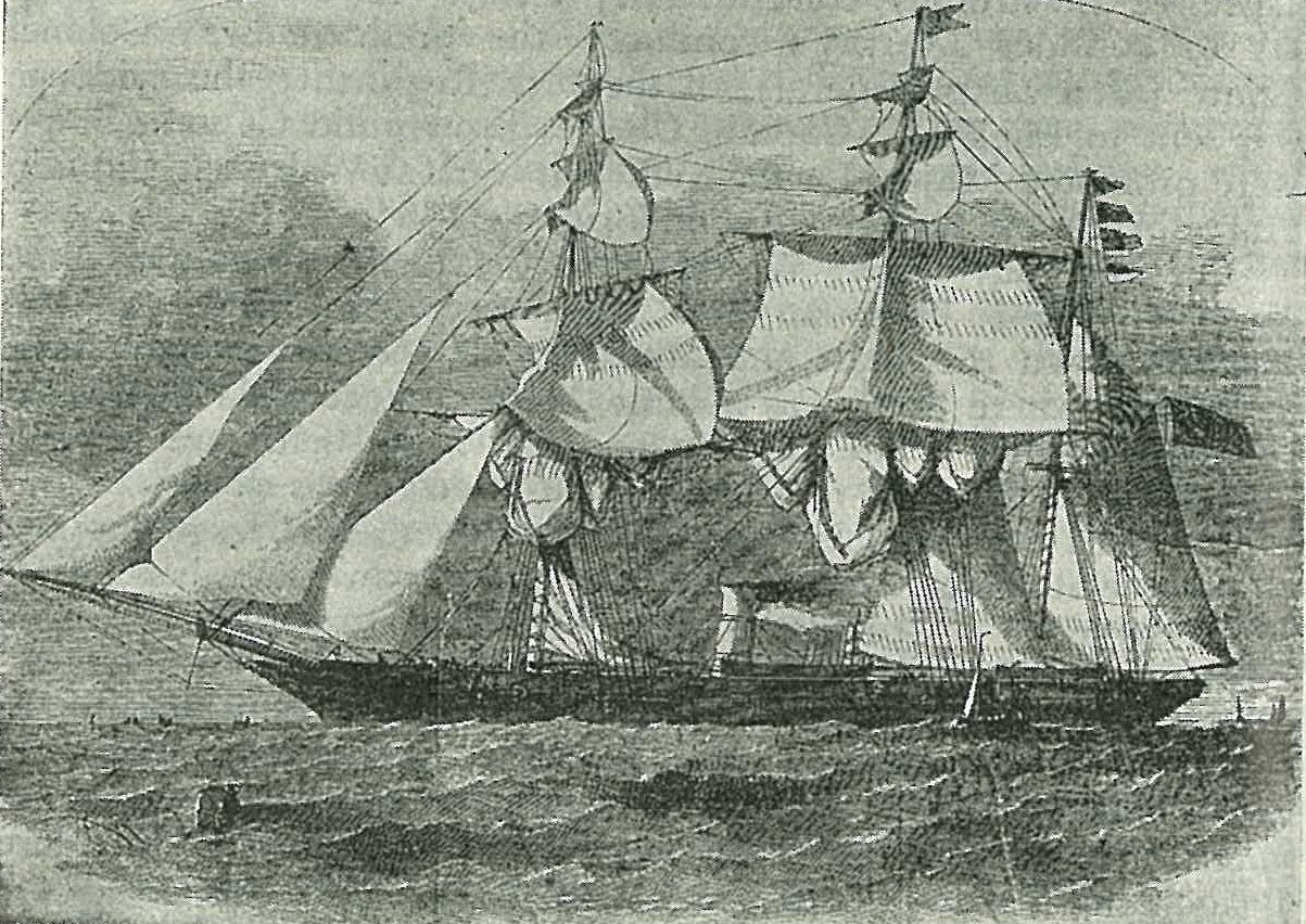 HMVS Victoria, also called HMCSS Victoria, built in 1855